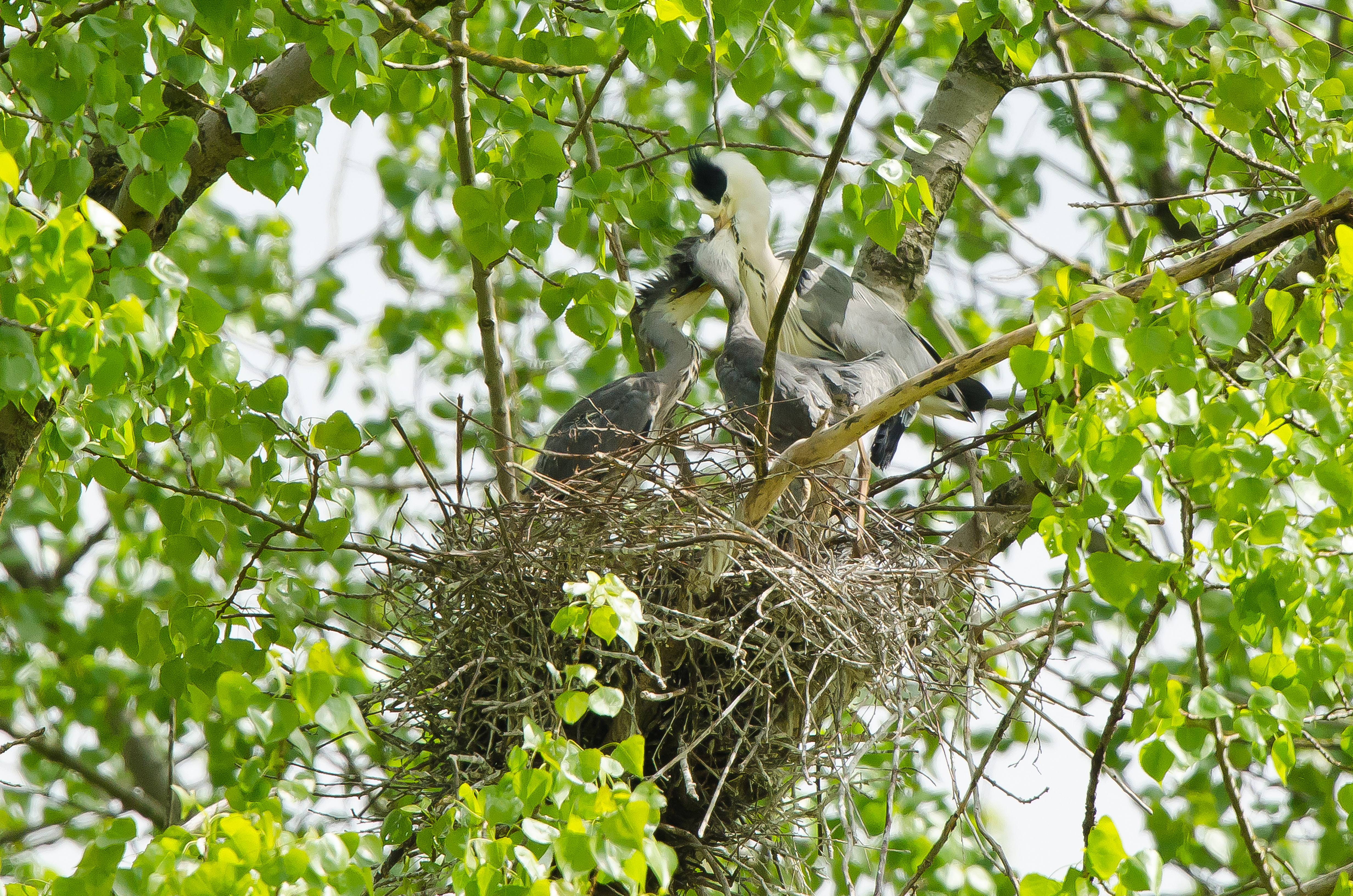 A grey heron is feeding the nestlings, high in the trees of the nature reserve "Buchhorster Auwald" in Landkreis Nienburg/Weser, Lower Saxony.